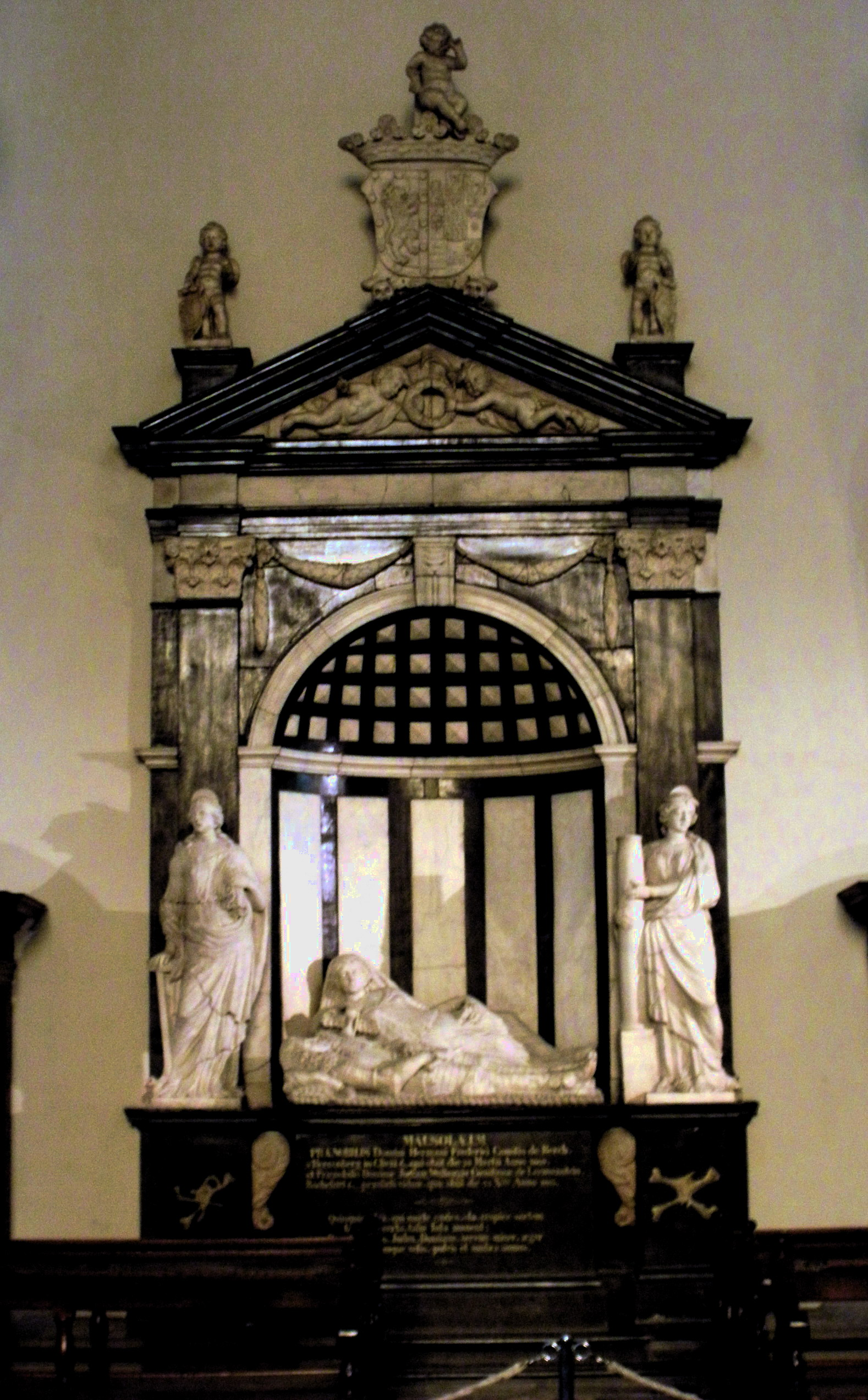 Memorial for count and countess Hendrik van den Bergh by Johan Boissier, (1683) in the North transept of the Basilica of Saint Servatius, Maastricht, the Netherlands.